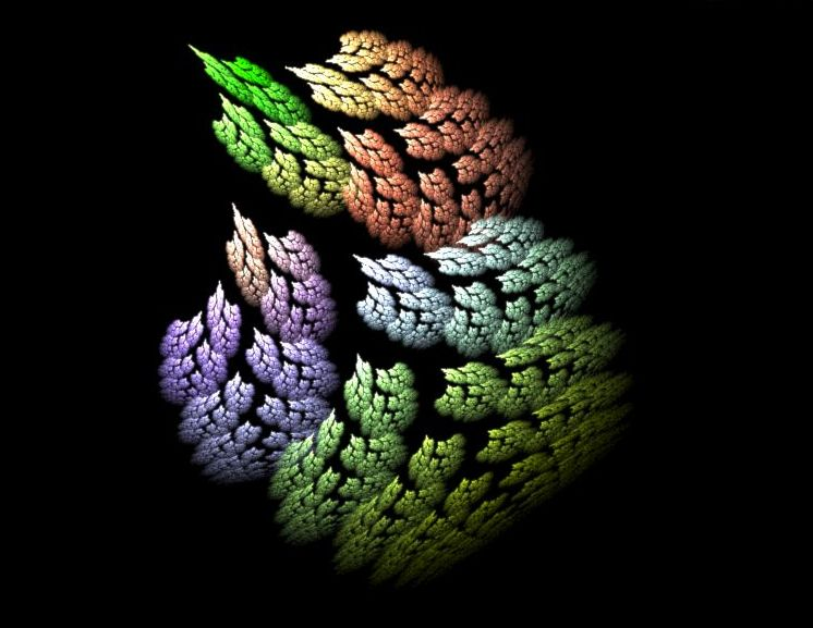 Fractal Flames, Made with Gimp